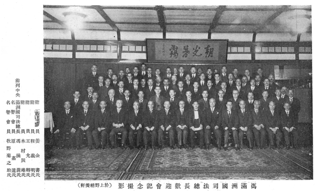 Commemorative photo of Feng Hanqing visit the Imperial Bar Association at the party in Tokyo's fancy restaurant Ueno Seiyoken.